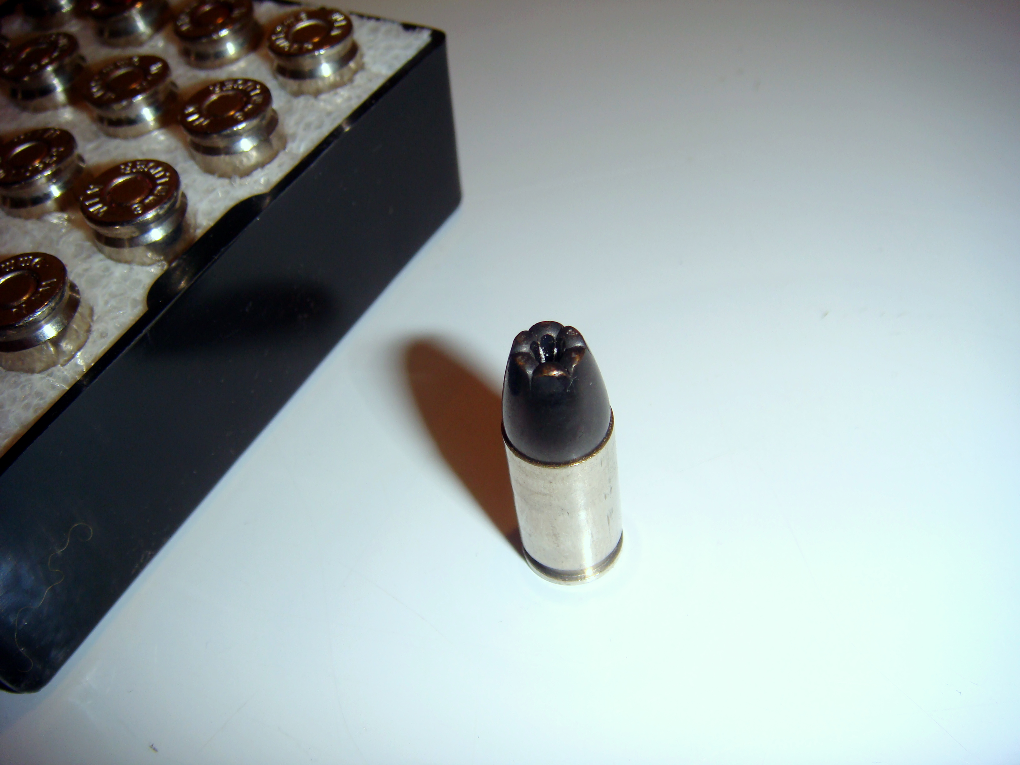 One round of Winchester Black Talon™ ammunition (9mm Luger), stood upright and positioned to the right of the black plastic 20-round box-tray with foam insert from which it was removed; bottoms of nine (9) other rounds of the same Deep Penetrator DP™ ammo are visible.